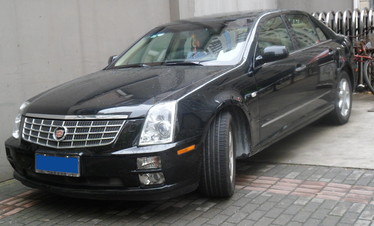 Cadillac SLS photographed in Shanghai, China.